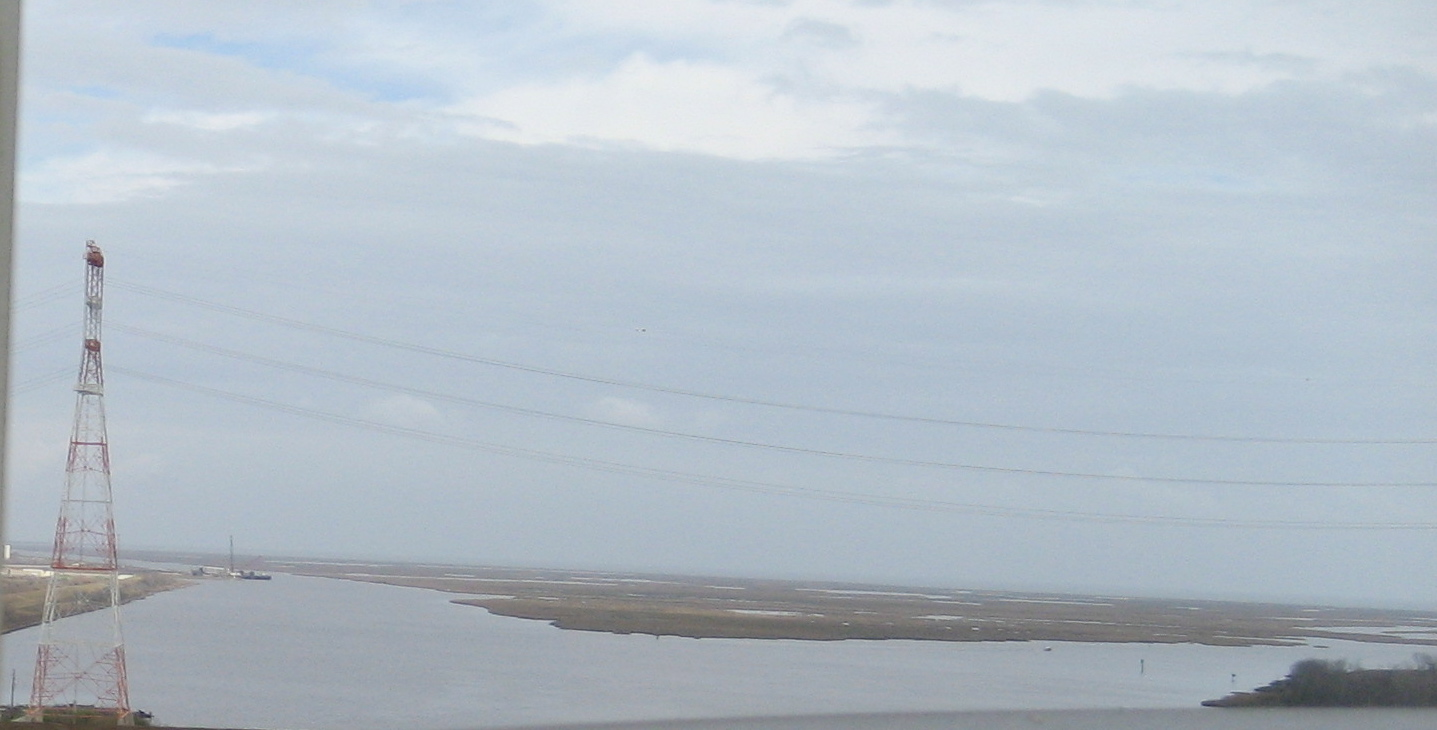 View from atop I-510 Bridge (Paris Road Bridge) looking east, showing Intracoastal Waterway (continues straight) and MRGO Canal (to right) split.